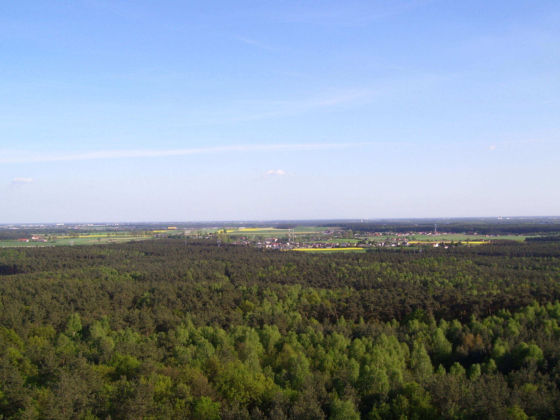 Landscape from Dziewicza Góra